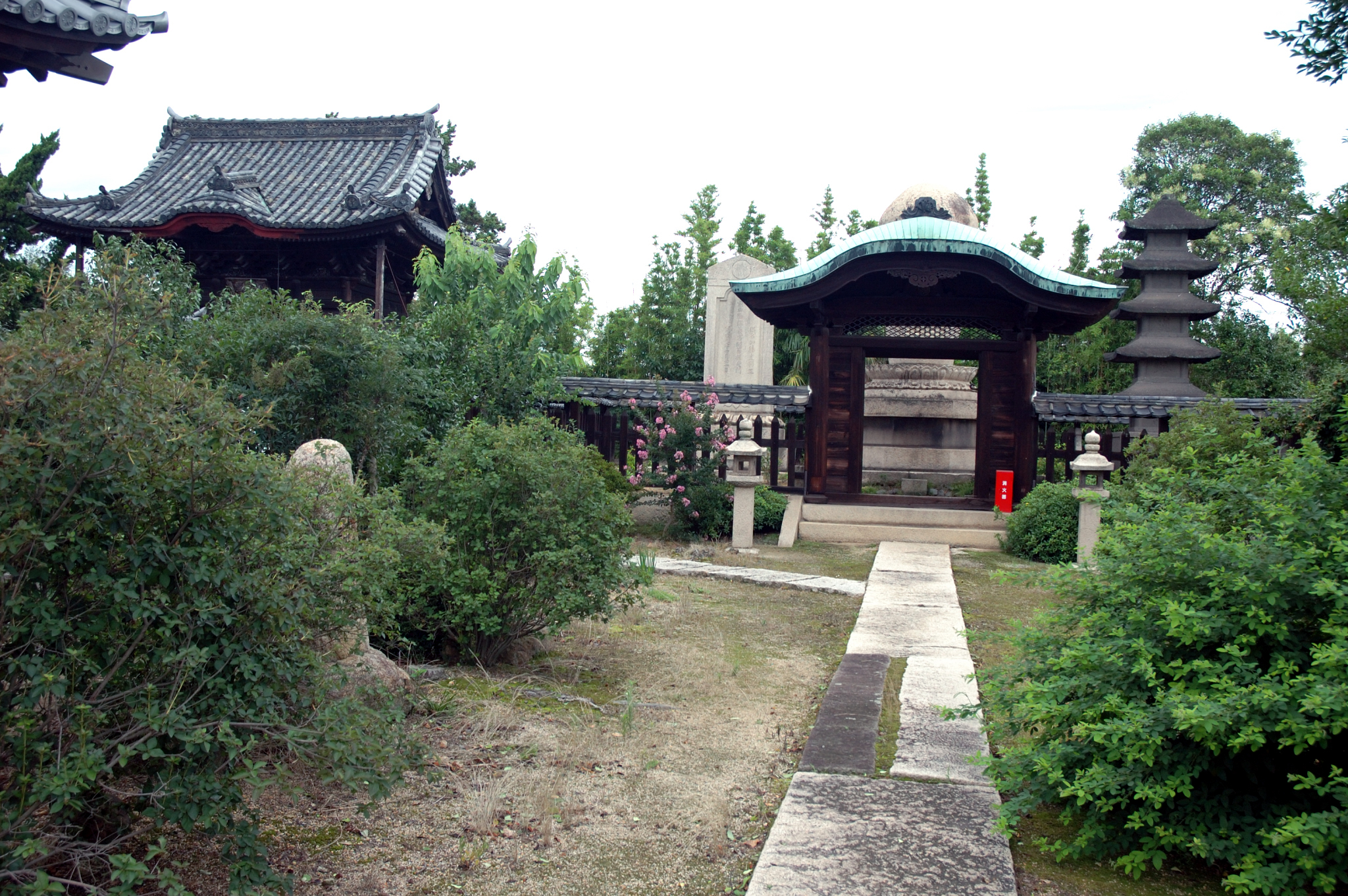 graves and joss house